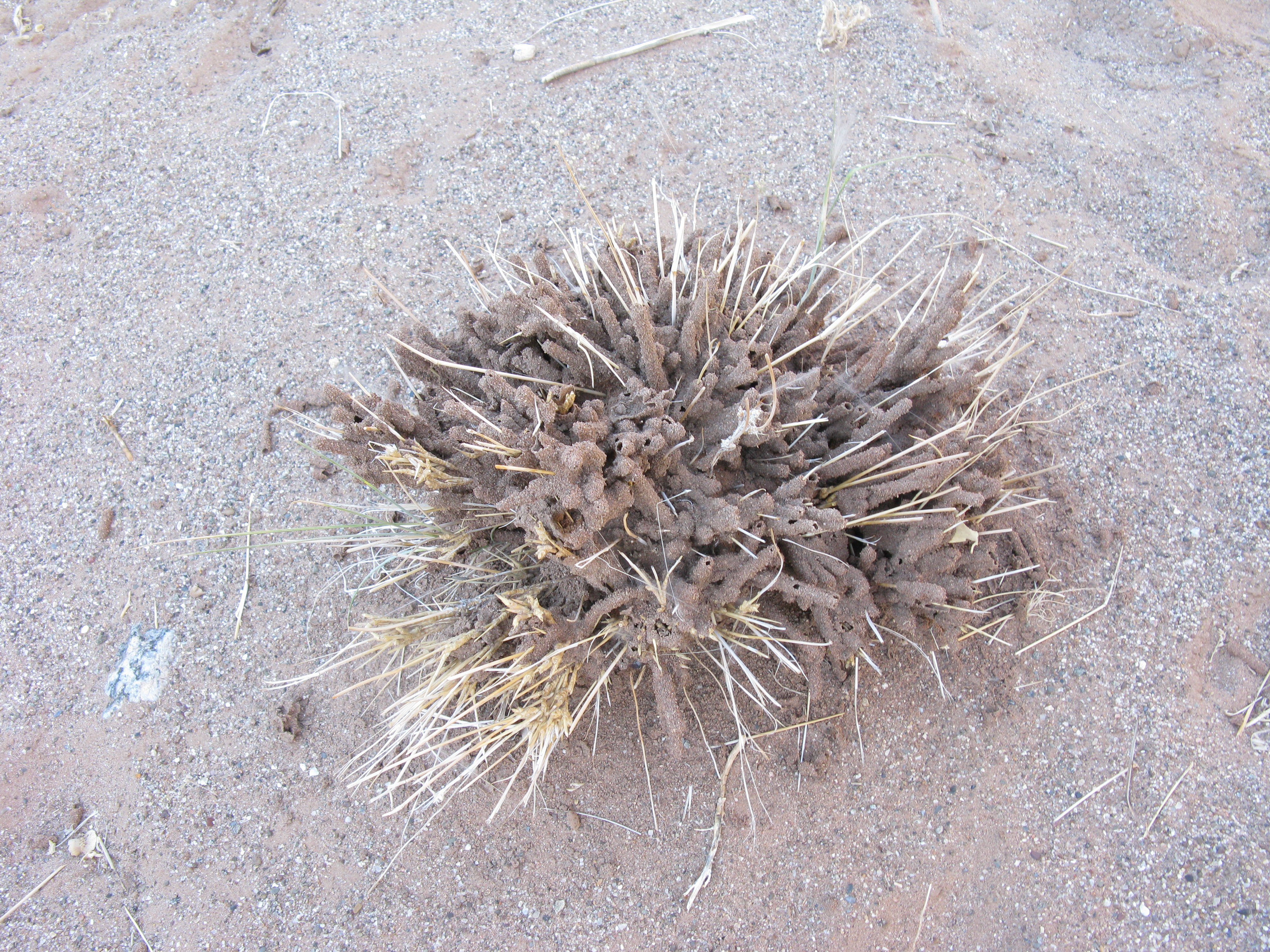 Various Psammotermes species forage above ground, covering dead or moribund plants with soil sheeting. Here they have attacked a grassy plant.